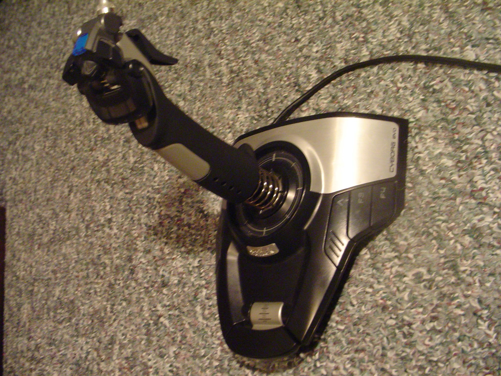 An image of a Saitek joystick called the Cyborg Evo.